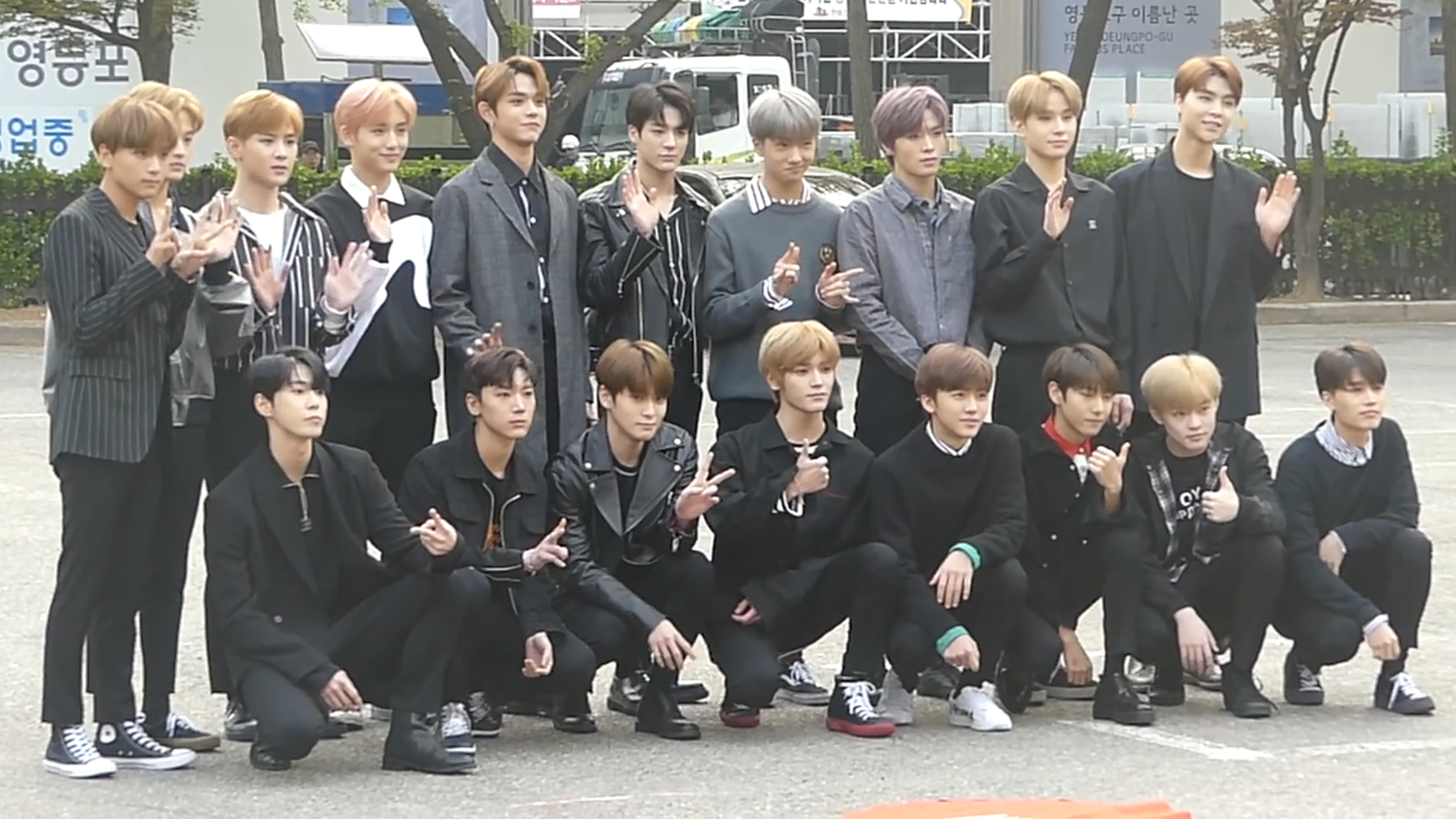 NCT going to a Music Bank recording on April 20, 2018.